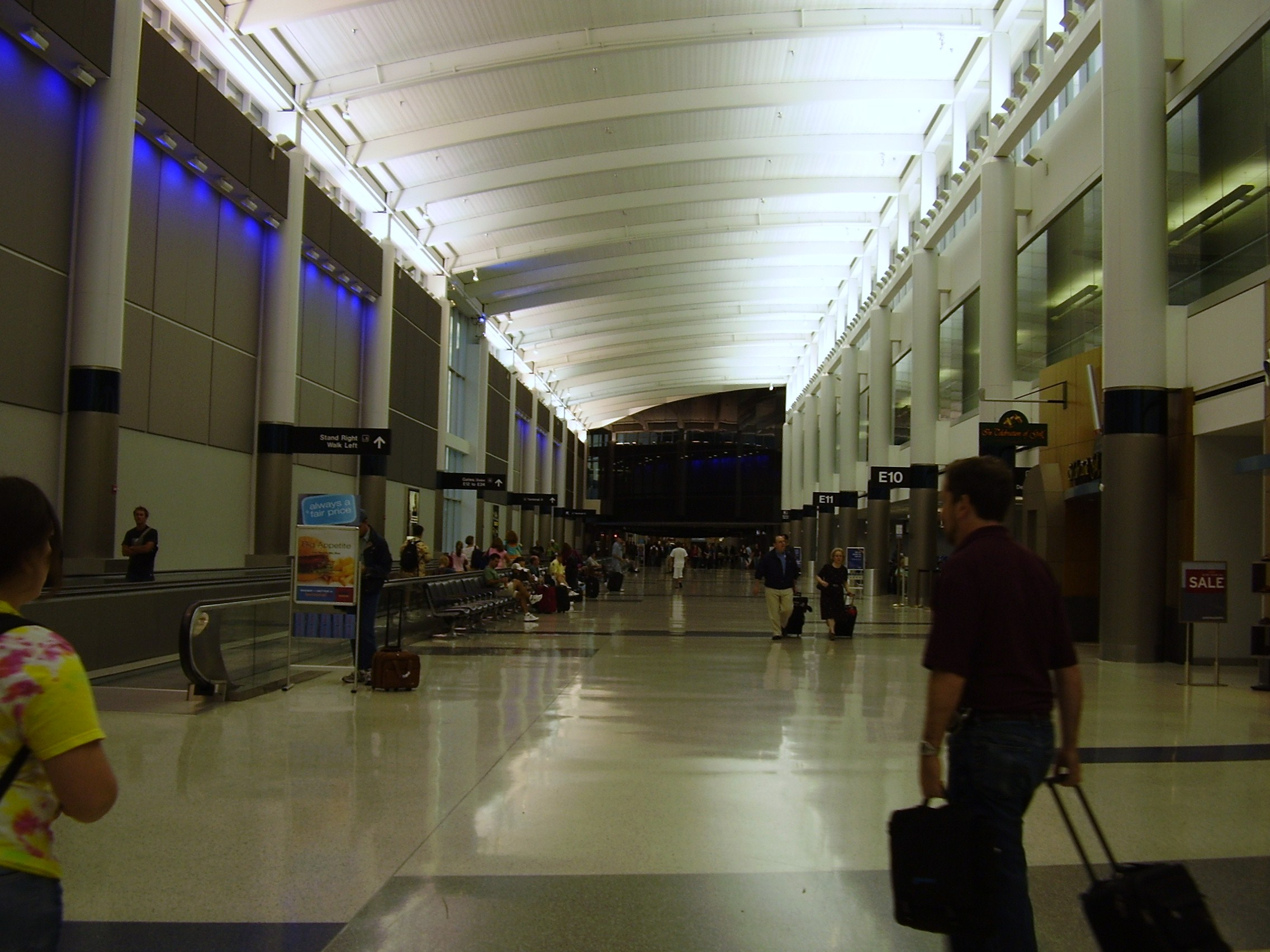 The inside of Terminal E at George Bush Intercontinental Airport